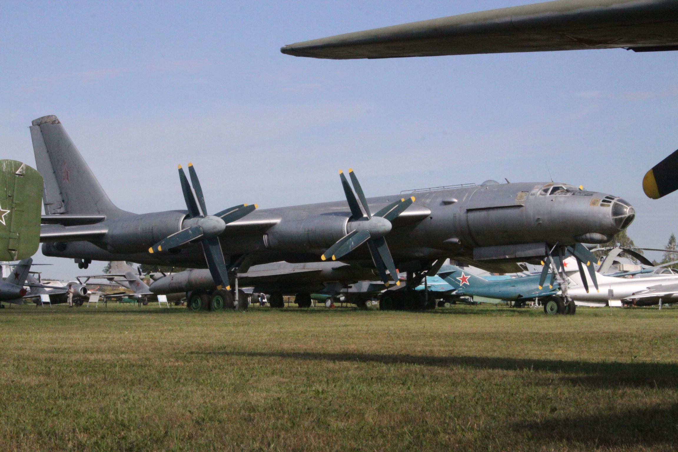 At Monino Museum